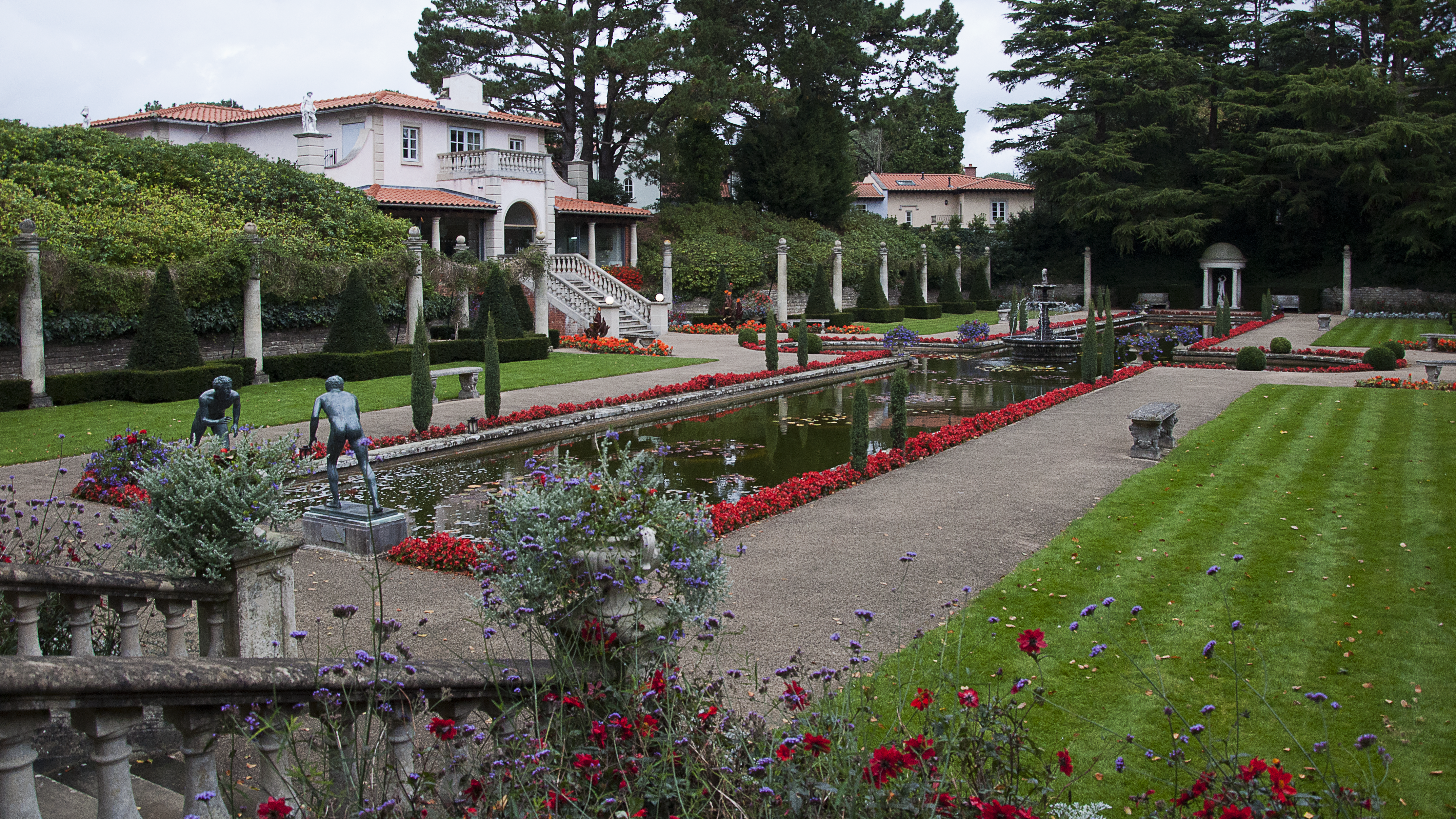 Compton Acres in Poole, South West England